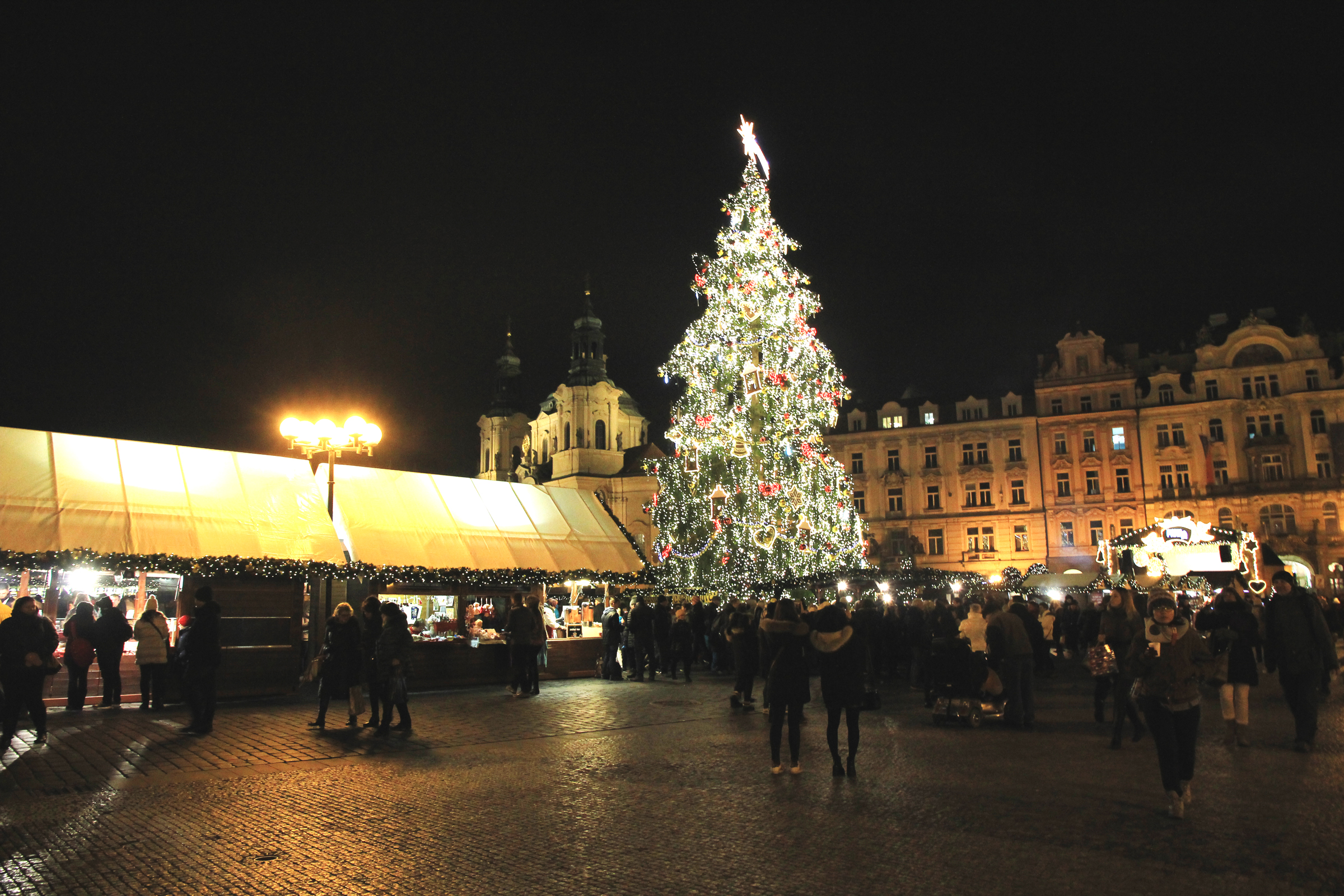 Christmas market tree on Old Town Square with St. Nicholas Church on background, Prague, Czech Republic 2015